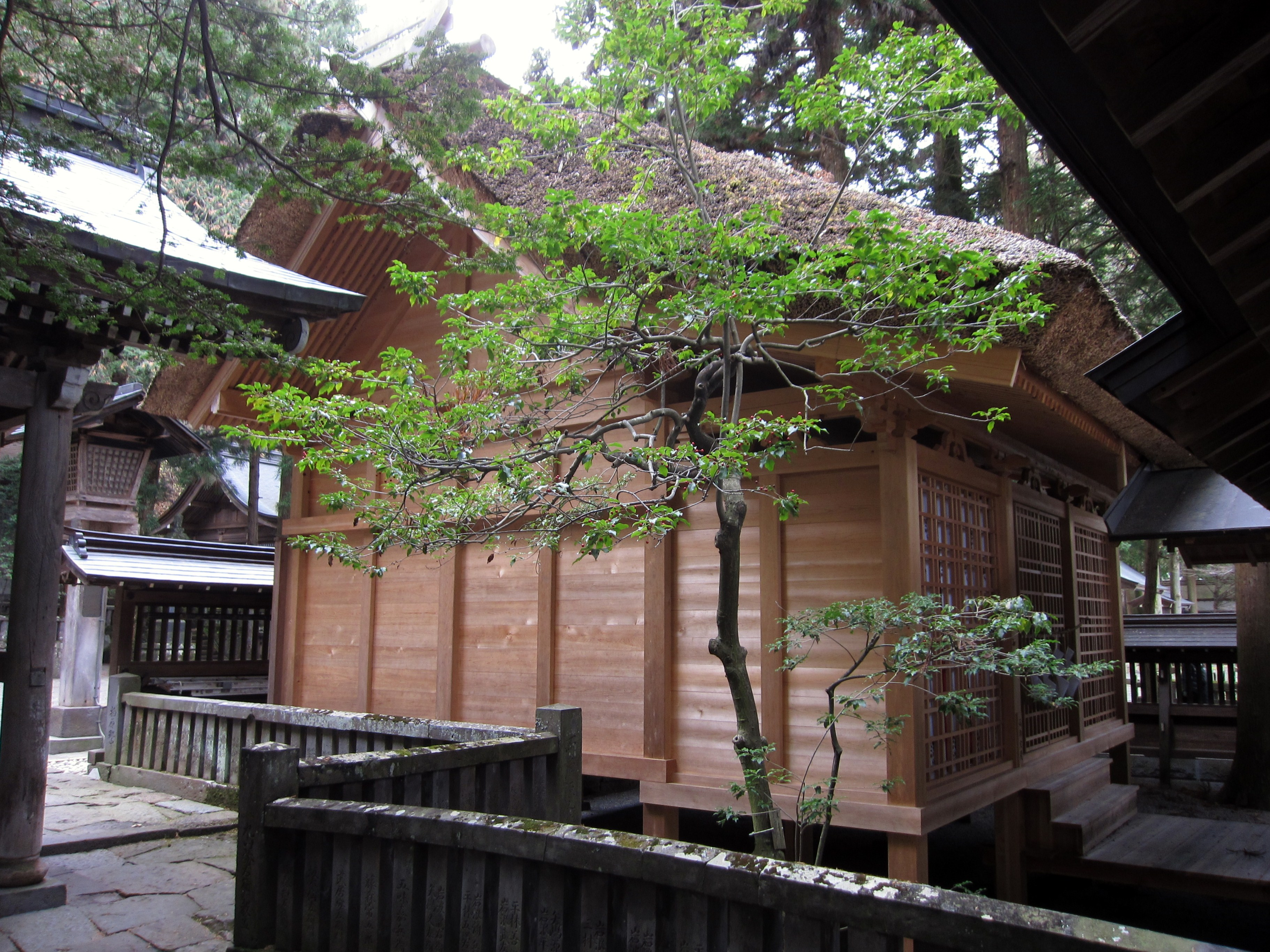 The western 'treasure hall' or hōden (宝殿) located in the Kamisha Honmiya of Suwa-taisha.